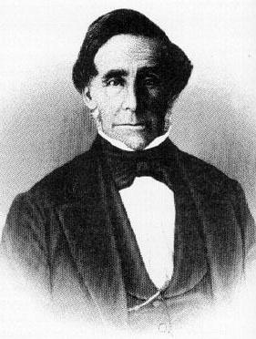 Thomas Lawyer, Congressman from New York.